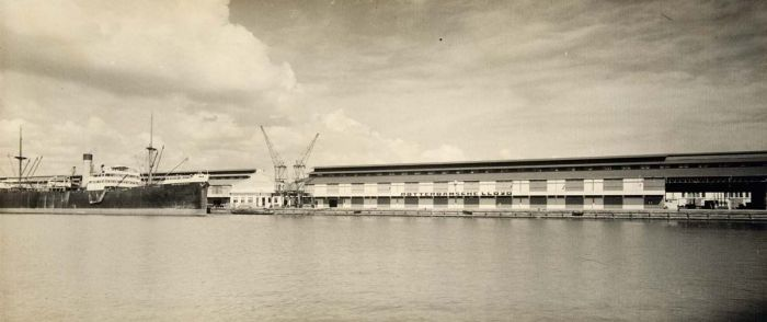 The Rotterdam Lloyd quay at Batavia's harbour Tanjung Priok